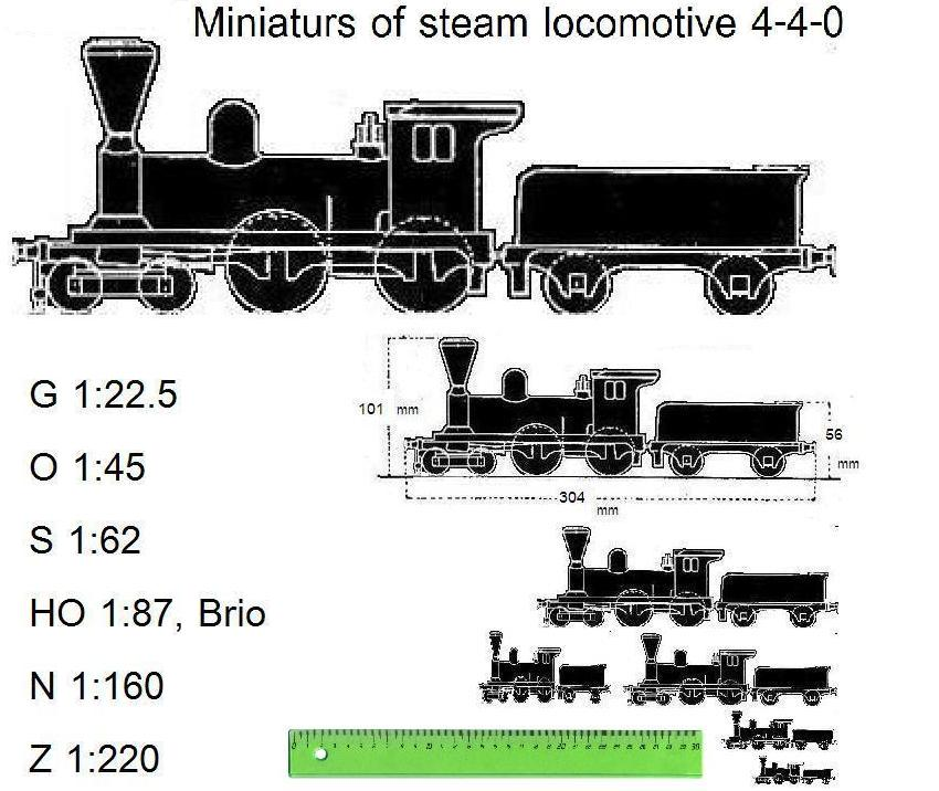 Main train scales diagram represented by a typical 4-4-0 steam locomotive